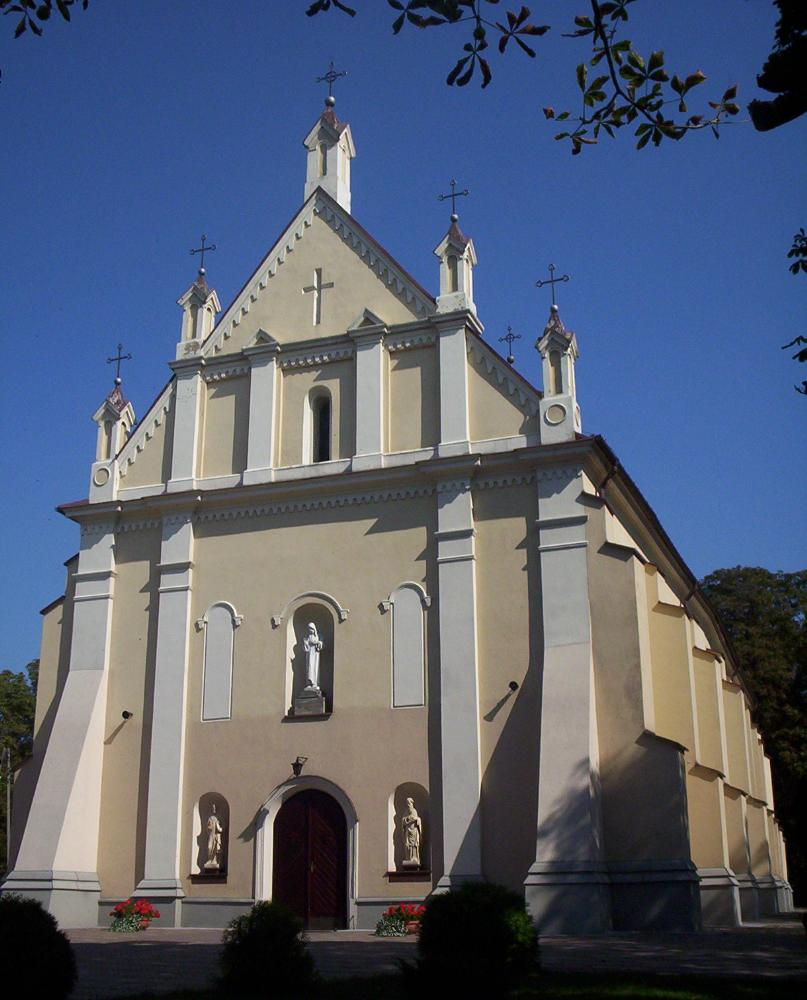 Saint Adalbert's of Prague church in Biała Rawska, Poland.